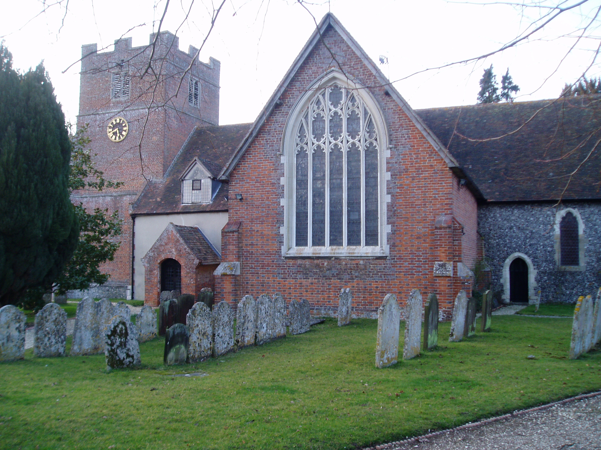 St James' church, Bramley, Hampshire, UK. Taken by User:MarkS 18 March 2006.